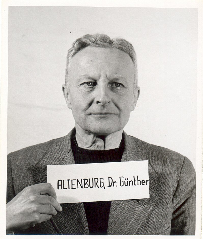 Dr. Günther Altenburg (1894-1984) at the Nuremberg Trials. Altenburg was a German career diplomat, who was special envoy in Greece (Bevollmächtigter des Reiches für Griechenland) from 1941-43 during the Second World War. This photograph of Riege as an interned witness was taken by US Army photographers on behalf of the Office of Chief of Counsel for War Crimes (OCCWC) during Nuremberg Trial VII (Hostages Trial / Generäle in Südosteuropa).